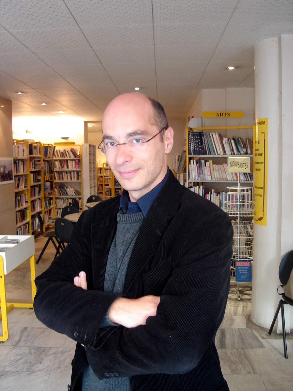 The Writer Bernard Werber in the French Institute in Sofia, Bulgaria